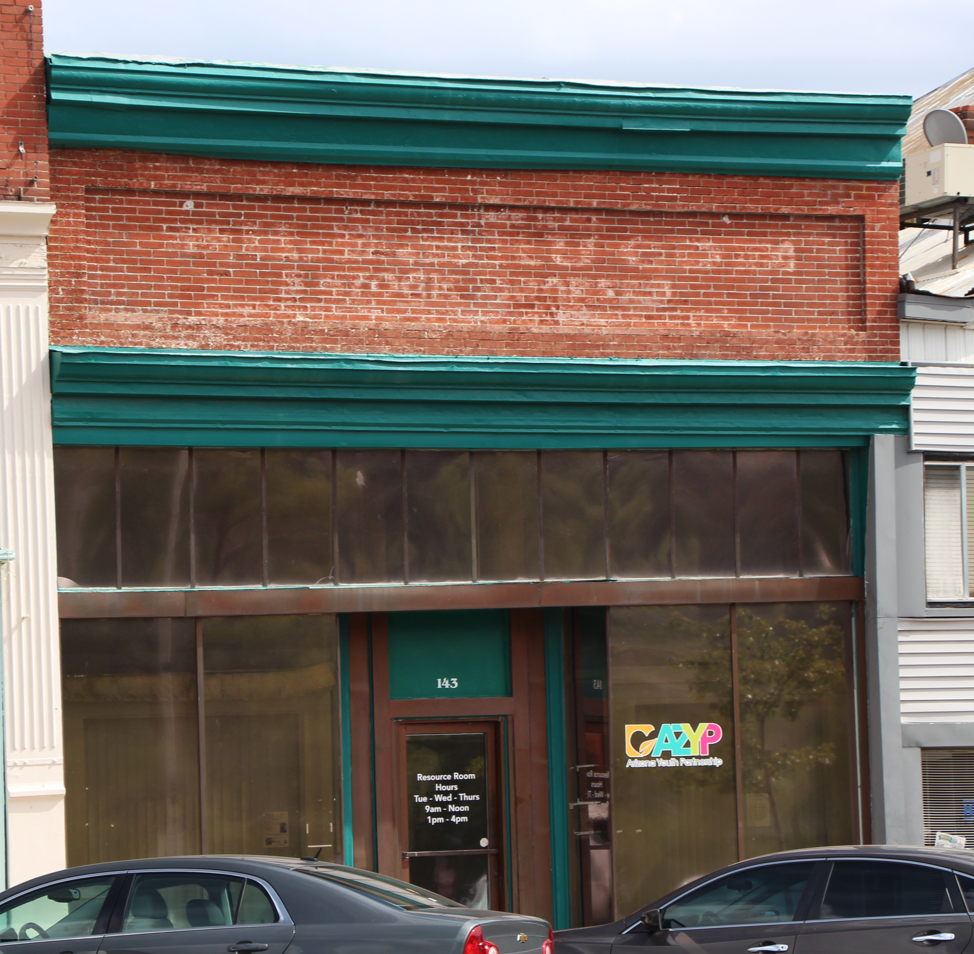 Banks Paint, 143 Broad Street, Globe, AZ